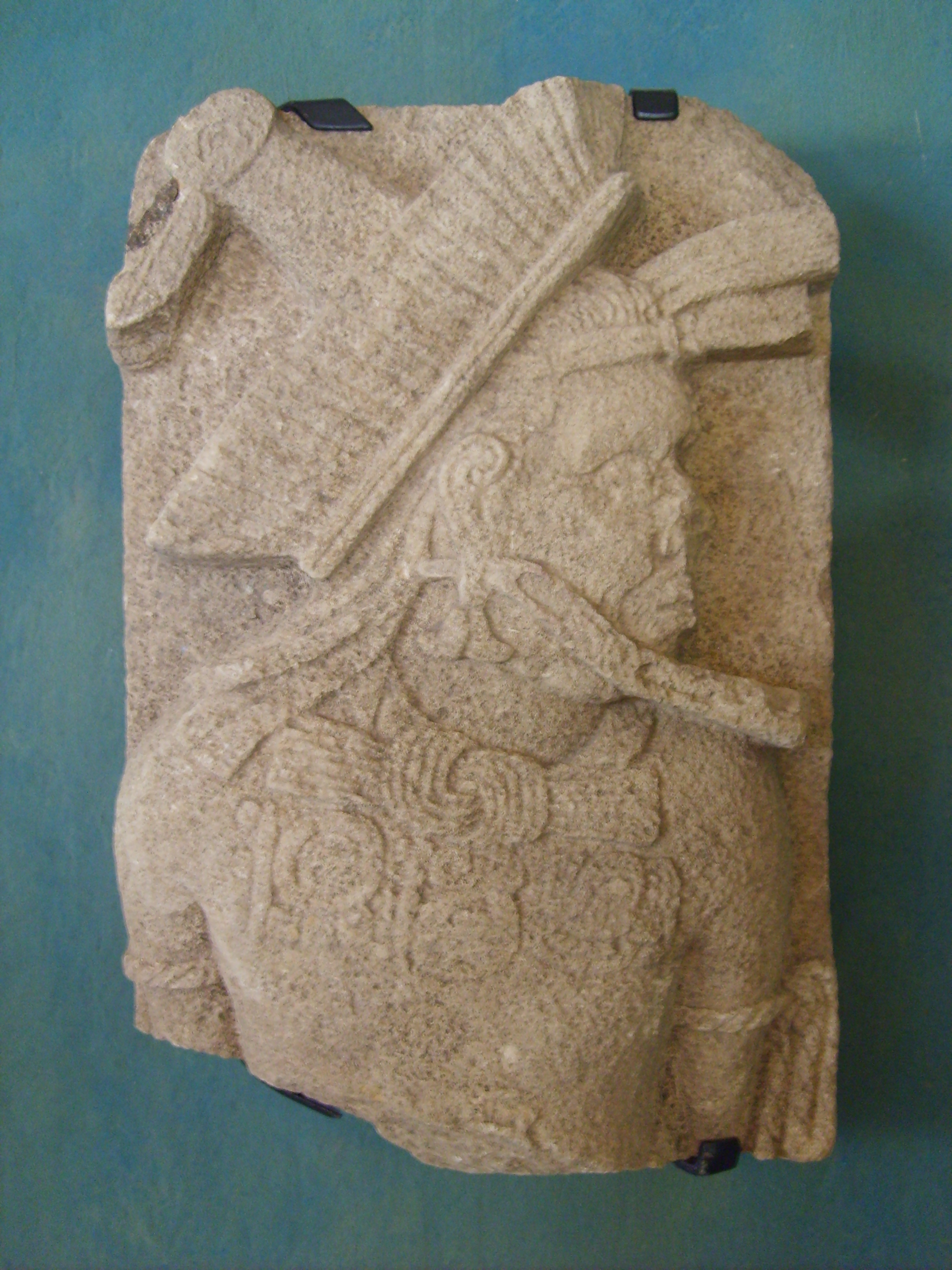 Sculpture of a prisoner in the Toniná site museum.